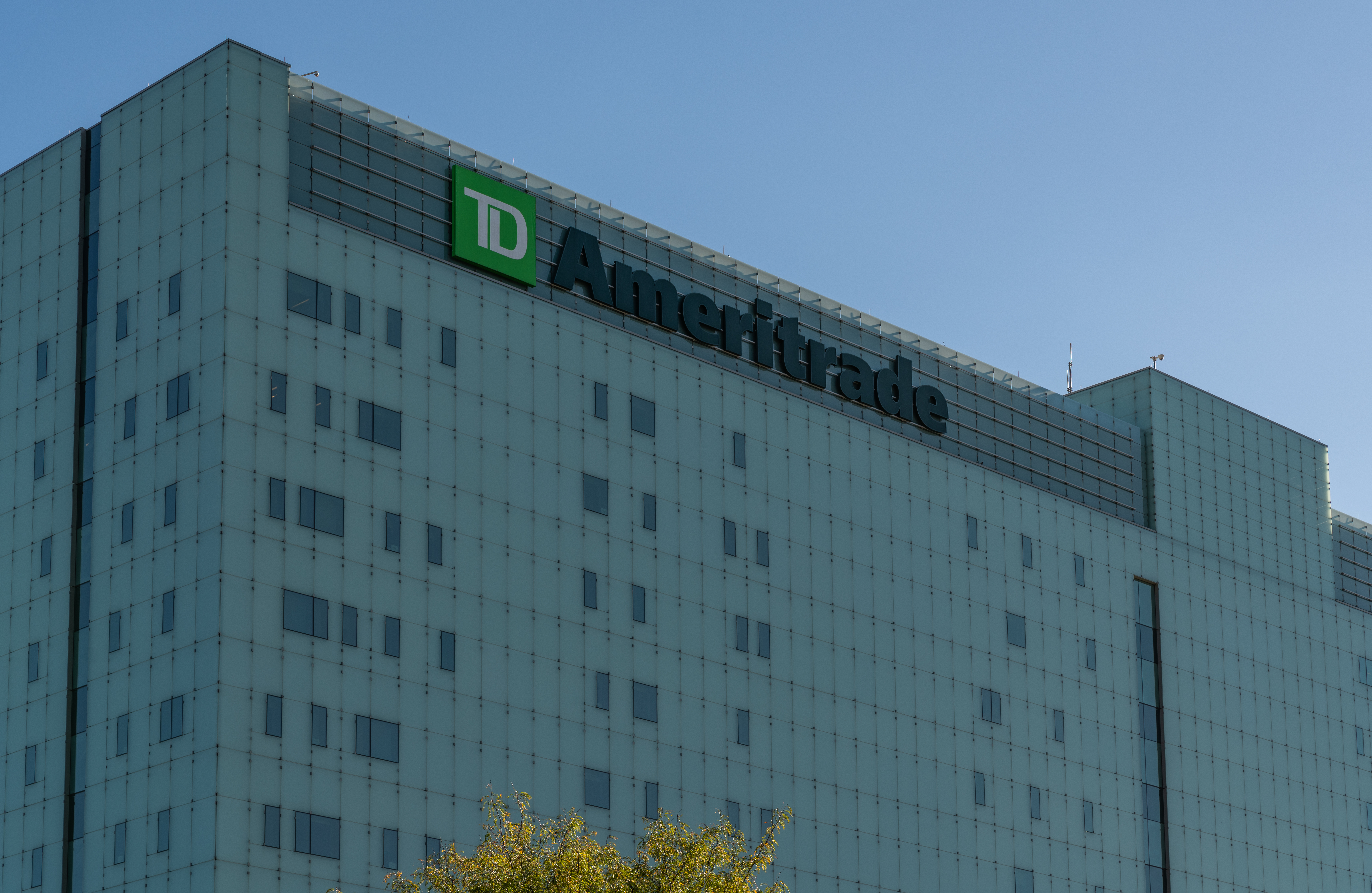 The TD Ameritrade corporate headquarters building at 200 S 108th Avenue in Omaha, Nebraska.